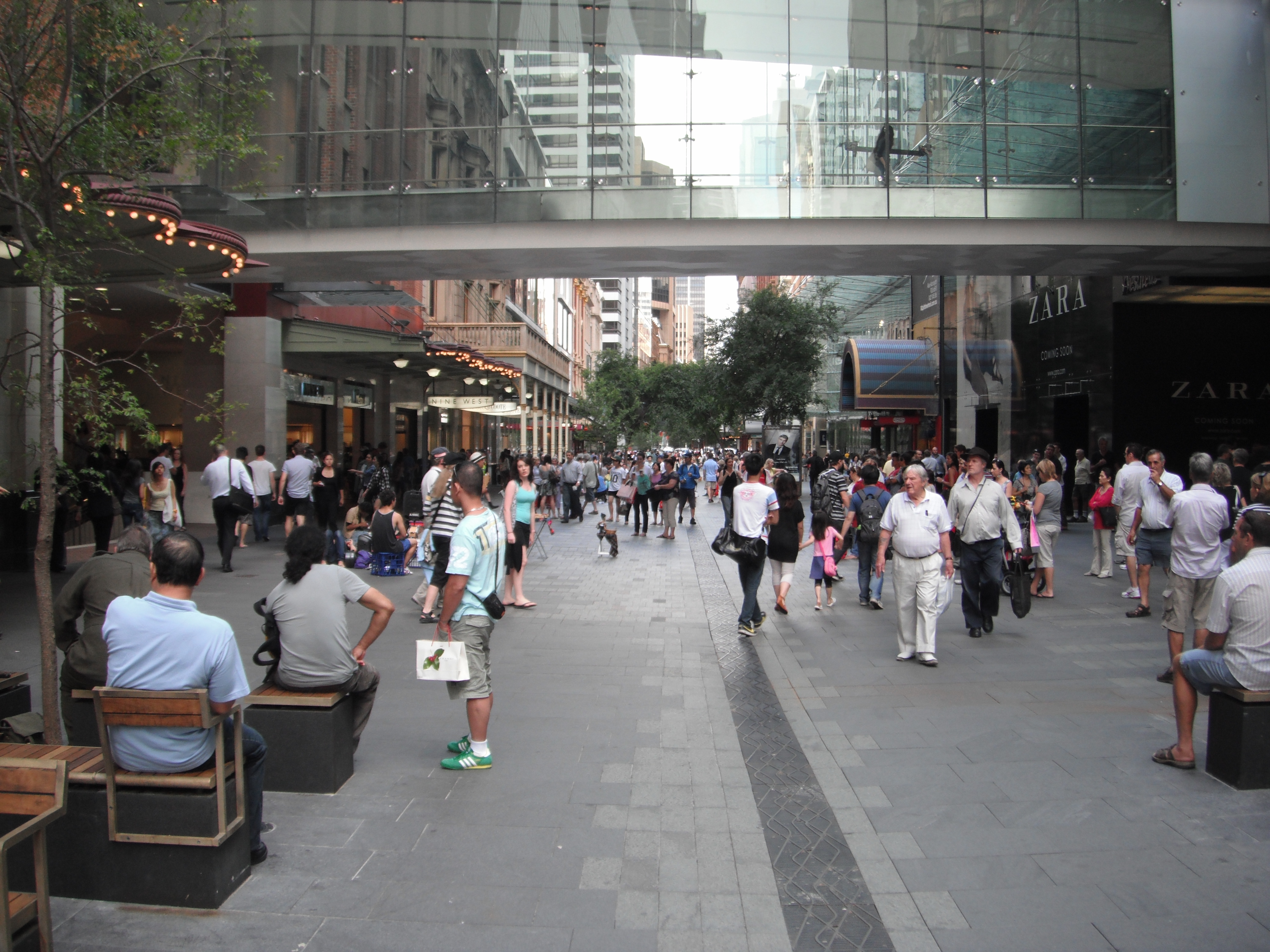 Footbridge across Pitt St Mall, Sydney